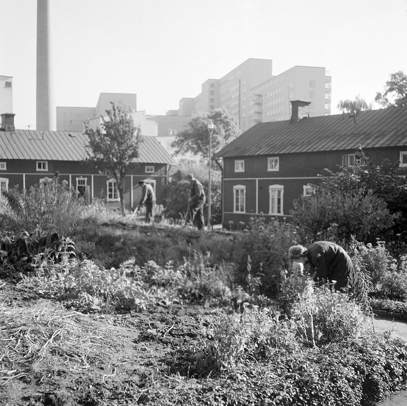 Worker's cottage at Tanto sugar works in Stockholm in 1946